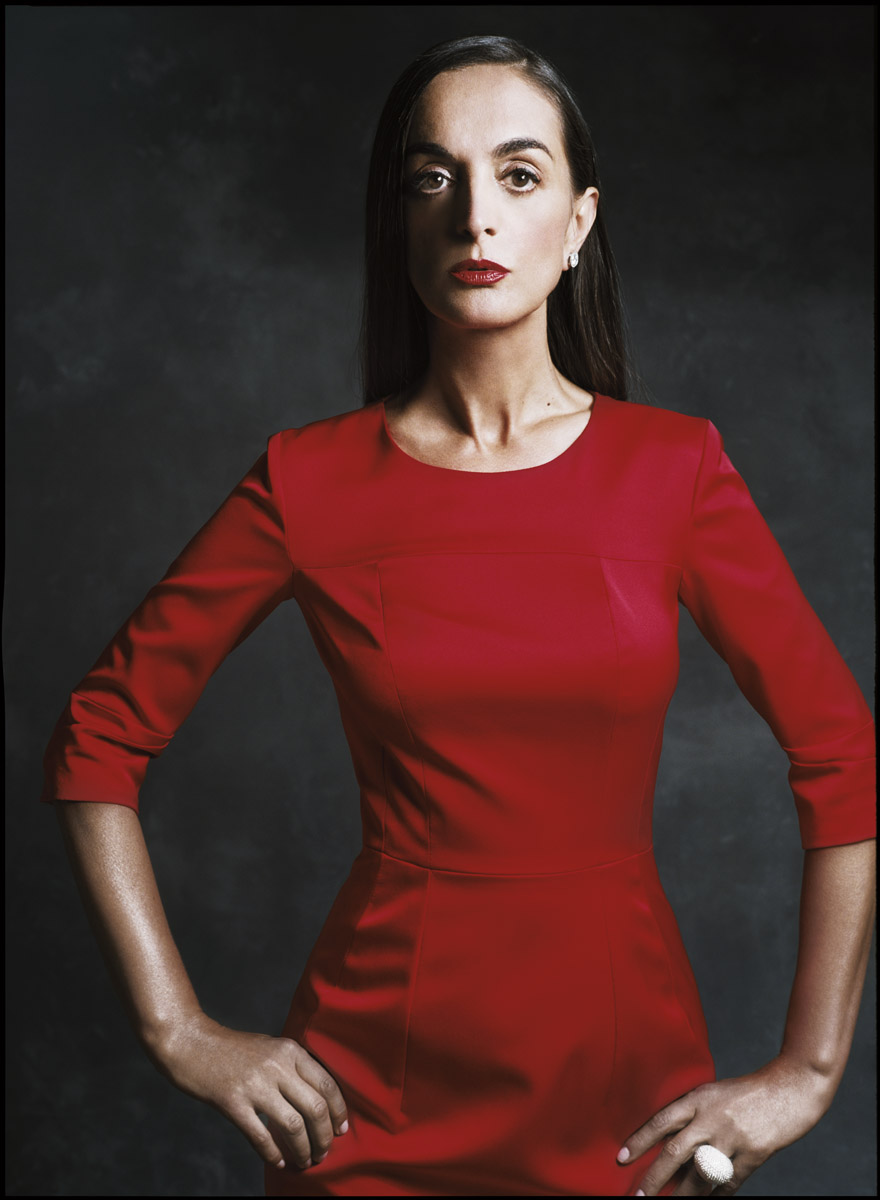 RB RED 2009